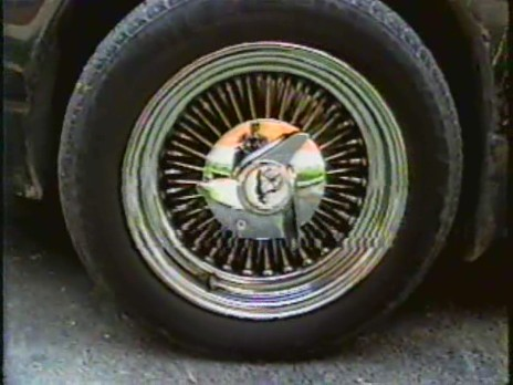 Wire wheel on car